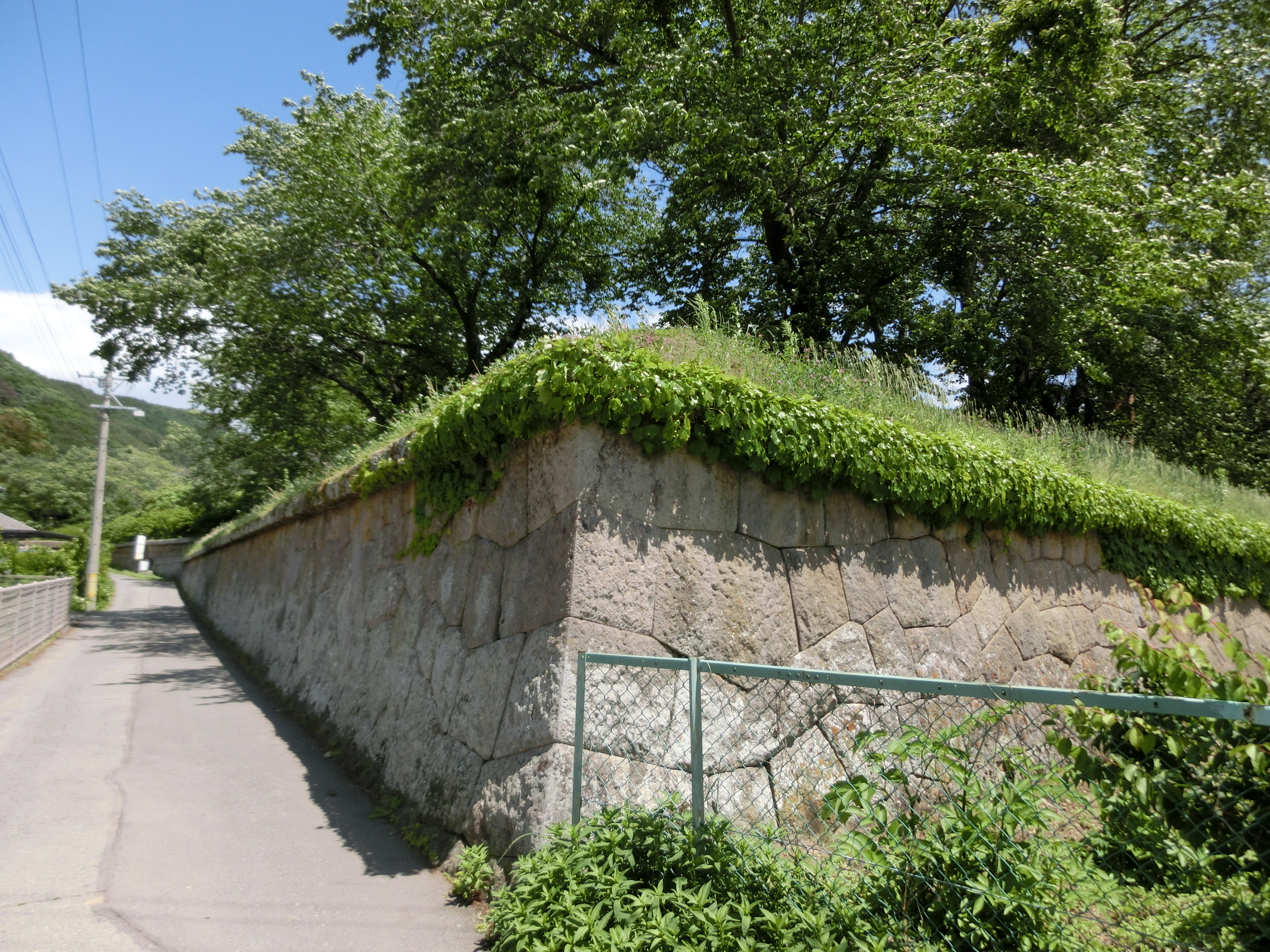 Tatsuoka Castle